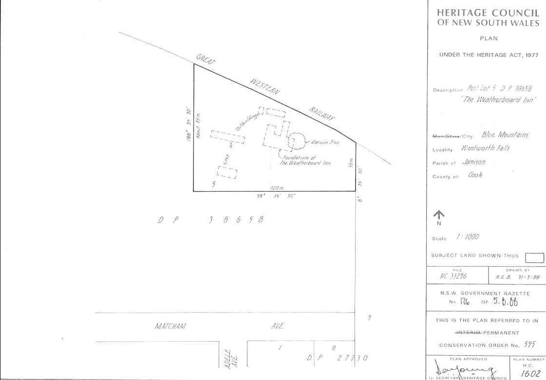 Weatherboard Inn archaelological site: PCO Plan Number 595